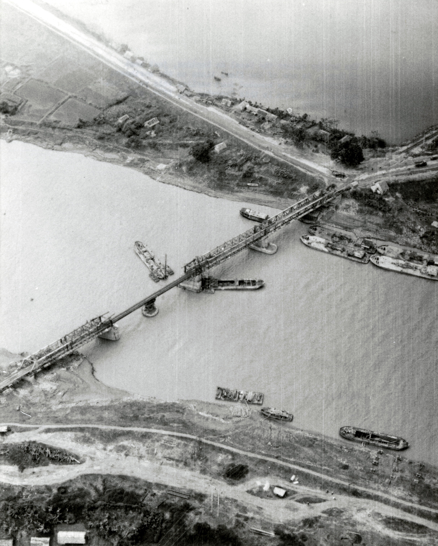 The railroad bridge across the Canal des Rapides (aka the Duong River), just east of Hanoi, North Vietnam, was one of the final links on the northeast railroad. It was knocked down earlier in 1972 but repaired as shown in this 12 December 1972 photo.